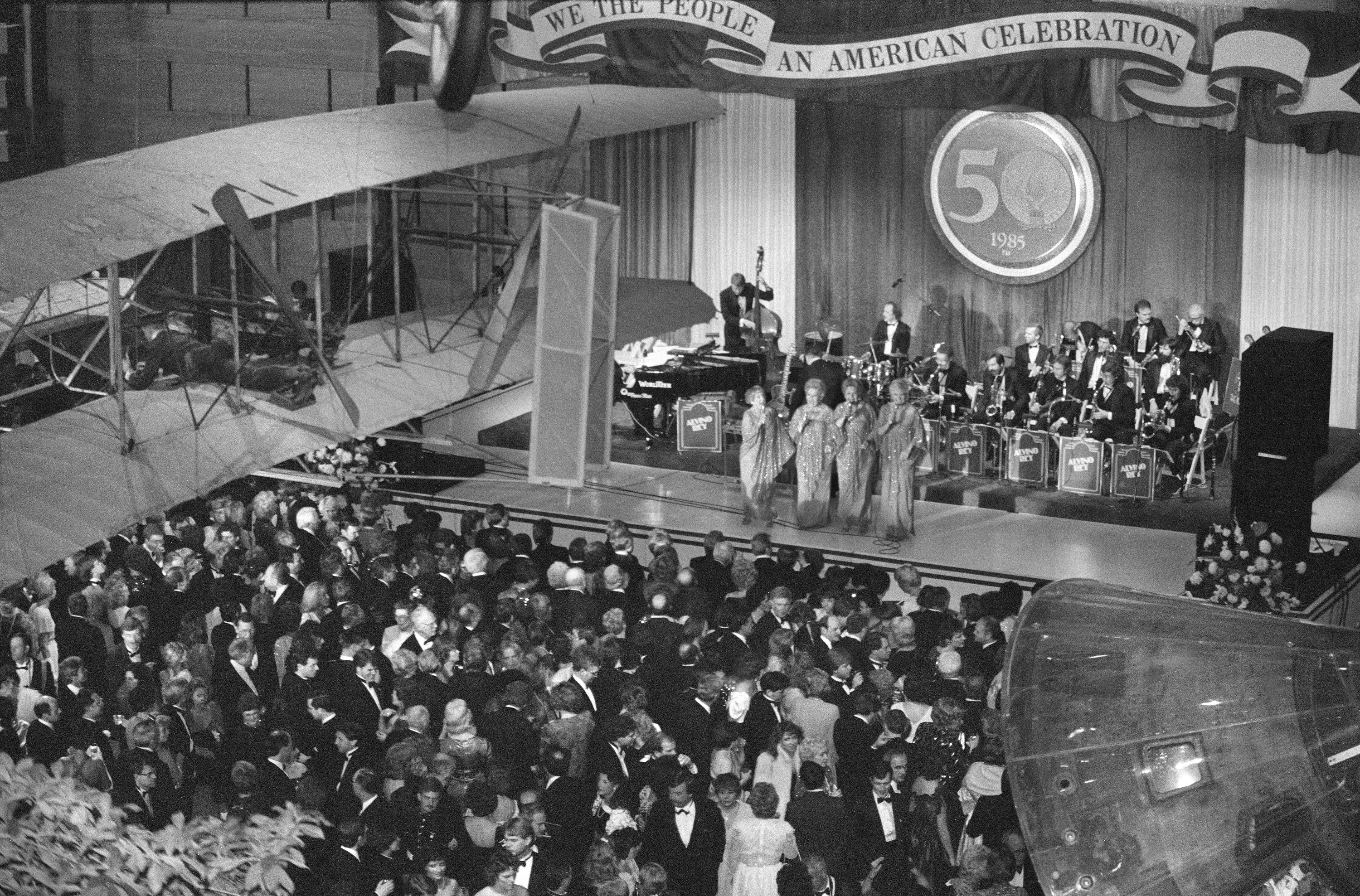 Description: 85-725.21, Reagan Inaugural Ball in NASM, from 35mm bwn. Creator/Photographer: Mark Avino Medium: Black and white photographic print Culture: American Date: 1985 Persistent URL: [1] Repository: Smithsonian Institution Archives/Smithsonian Photographic Services Accession number: 85-725.21